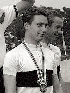 Willi Fuggerer (left) and Klaus Kobusch after the tandem on track awards ceremony at the Tokyo Olympics.Tokyo, October 1964